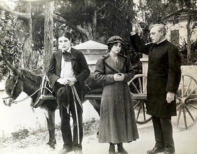 1916 --- 1916- Picture shows the parting benediction scene from the movie, "The Innocent Lie". Left to right; Jack J. Clark, Valentine Grant and Sidney Olcott. --- Image by© Bettmann/CORBIS